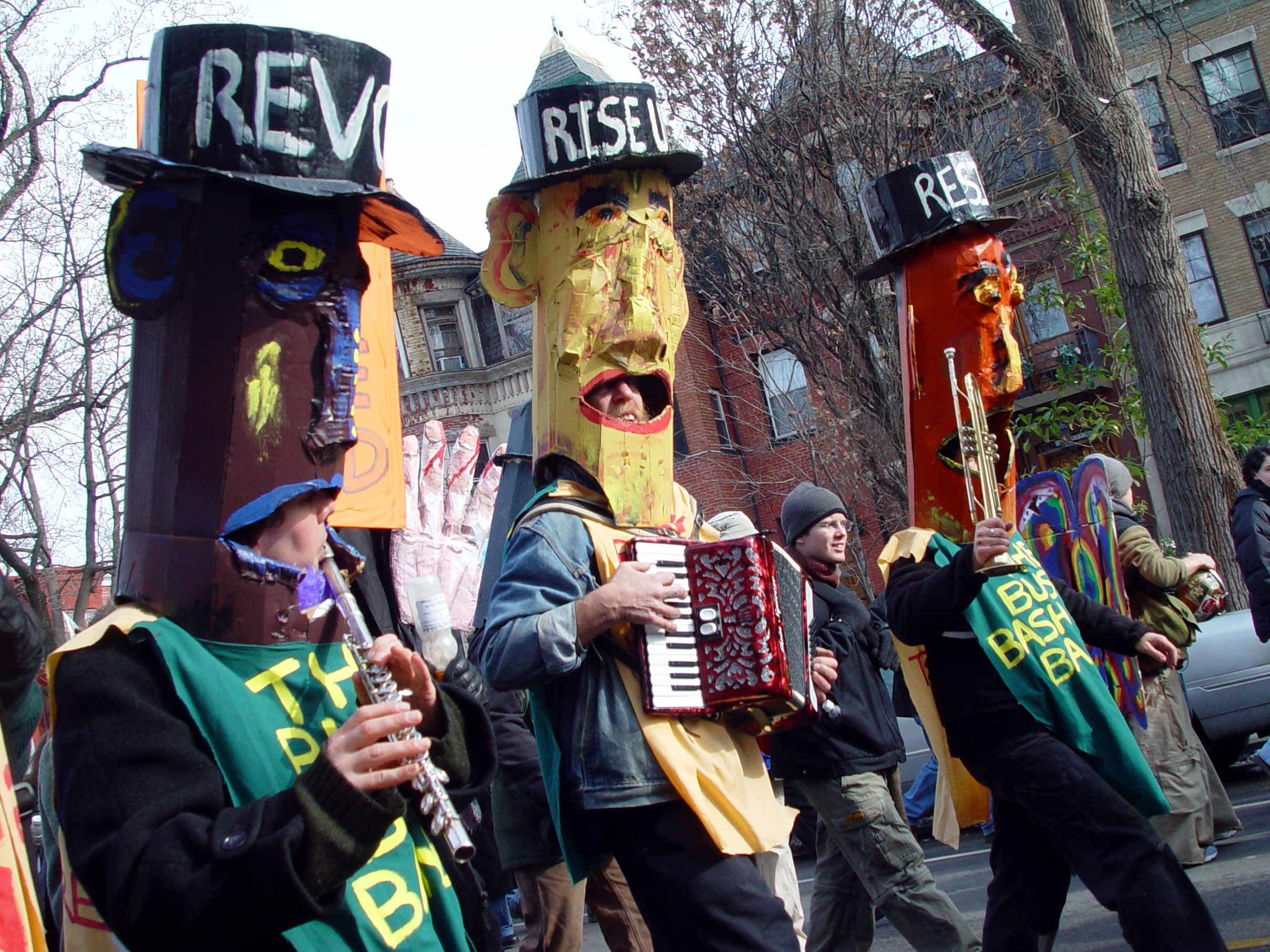 The Bash Bush Band musical protesters at Bush's 2nd inauguration, Washington DC.